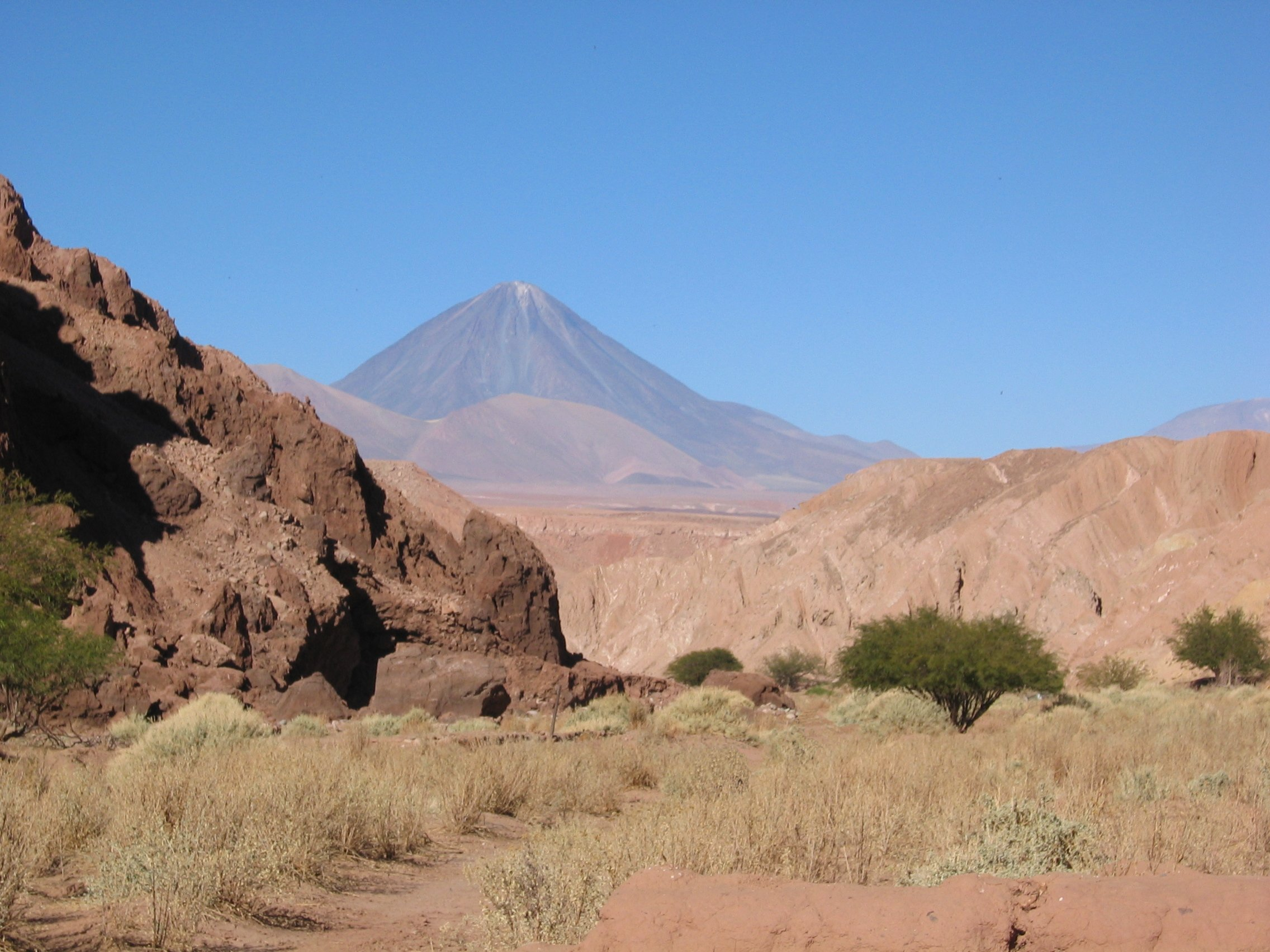 At about 16 km north of San Pedro de Atacama. Sight from the Río Grande valley (2670 m a.s.l.) at Ayaviri to the Licancabur volcano at a distance of about 33 km. original uploader information: Chili - cordillère des Andes - le Licancabur (volcan de 5916 mètres) self made PRA